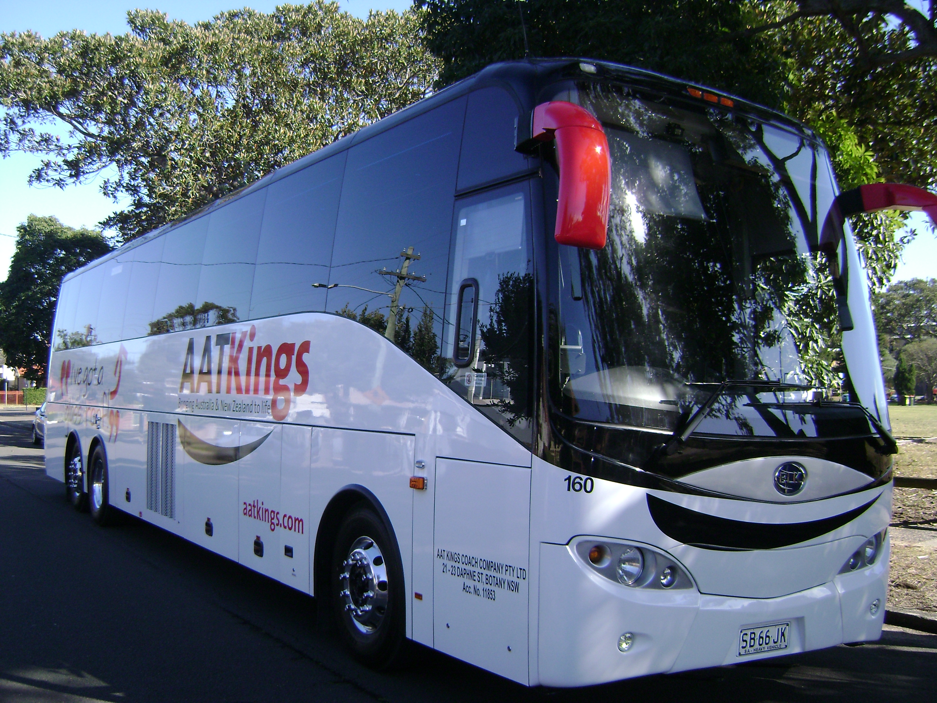 An AAT Kings Bonluck President 3 coach with glass roof outside the AAT Kings depot in Botany, NSW, Australia